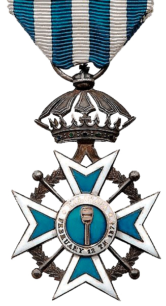 Source:[1] Author: Ian Watts